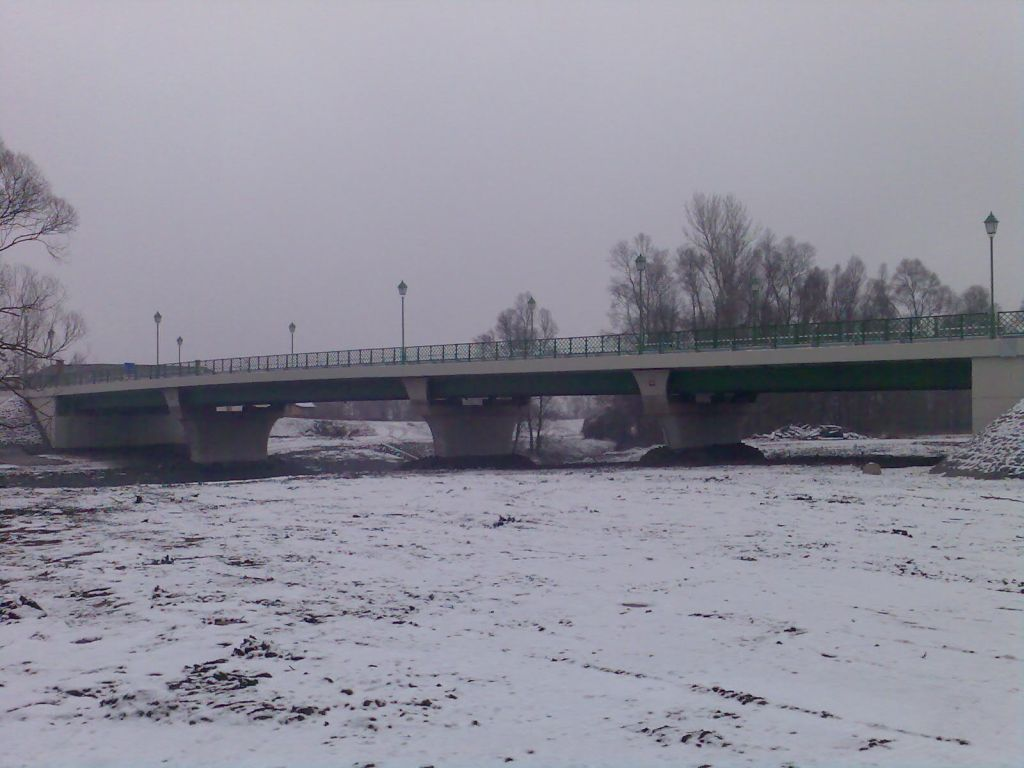 Bridge near Szécsény 27th december 2011